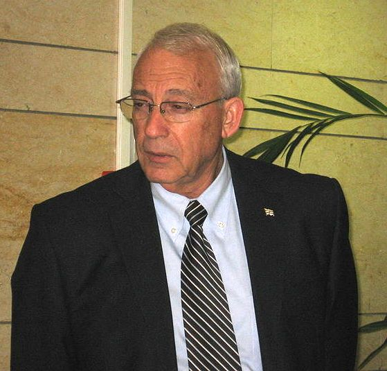 Ze'ev Boim